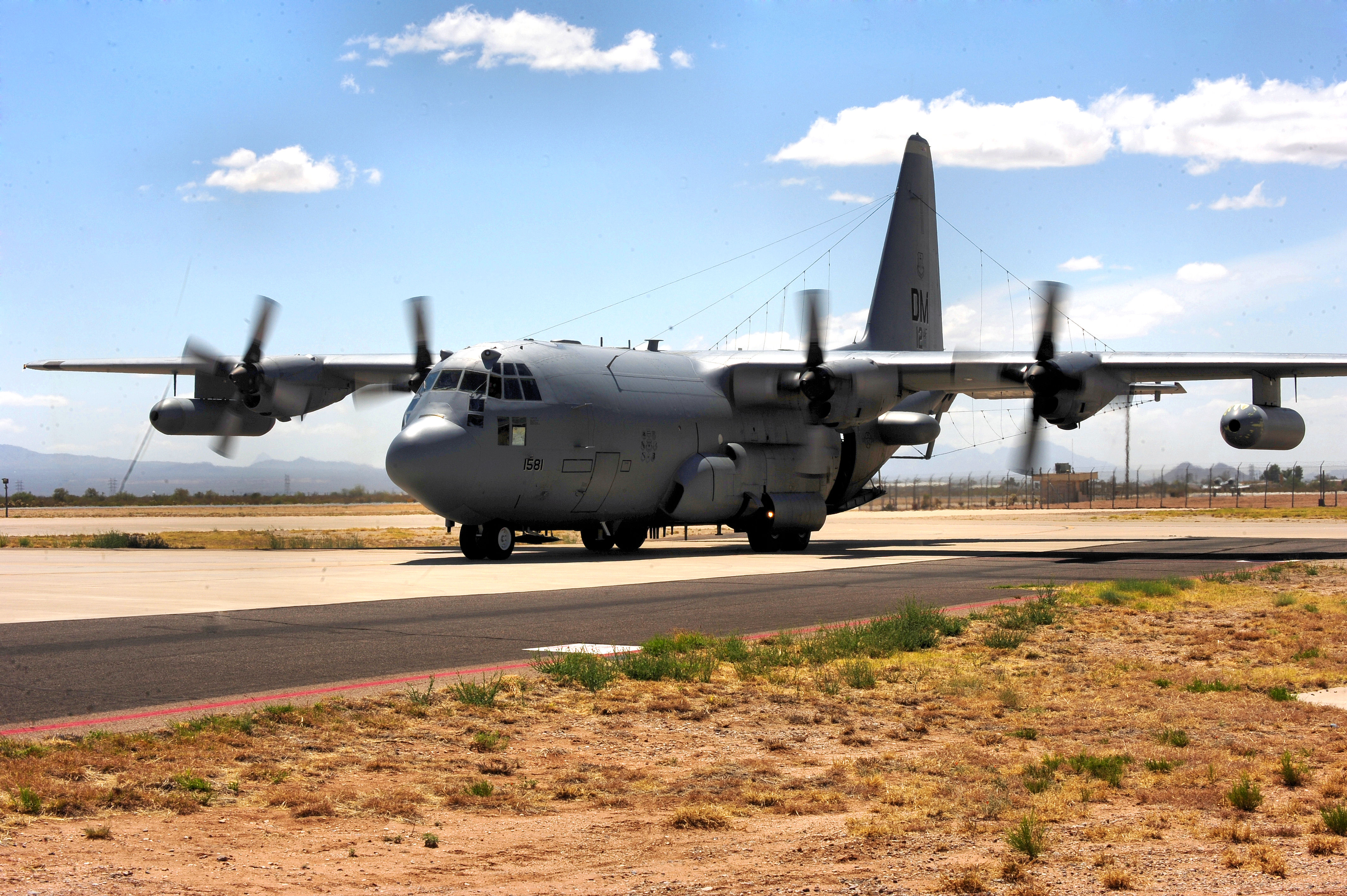 DAVIS-MONTHAN AIR FORCE BASE, Ariz. - A EC-130 H aircraft makes its way down the runway and onto the whiskey ramp here May 9. Airmen from the 55th Electronic Combat Group were tasked to perform electronic warfare against Libyan forces in support of Operation Odyssey Dawn. (U.S. Air Force photo/Airman 1st Class Jerilyn Quintanilla)